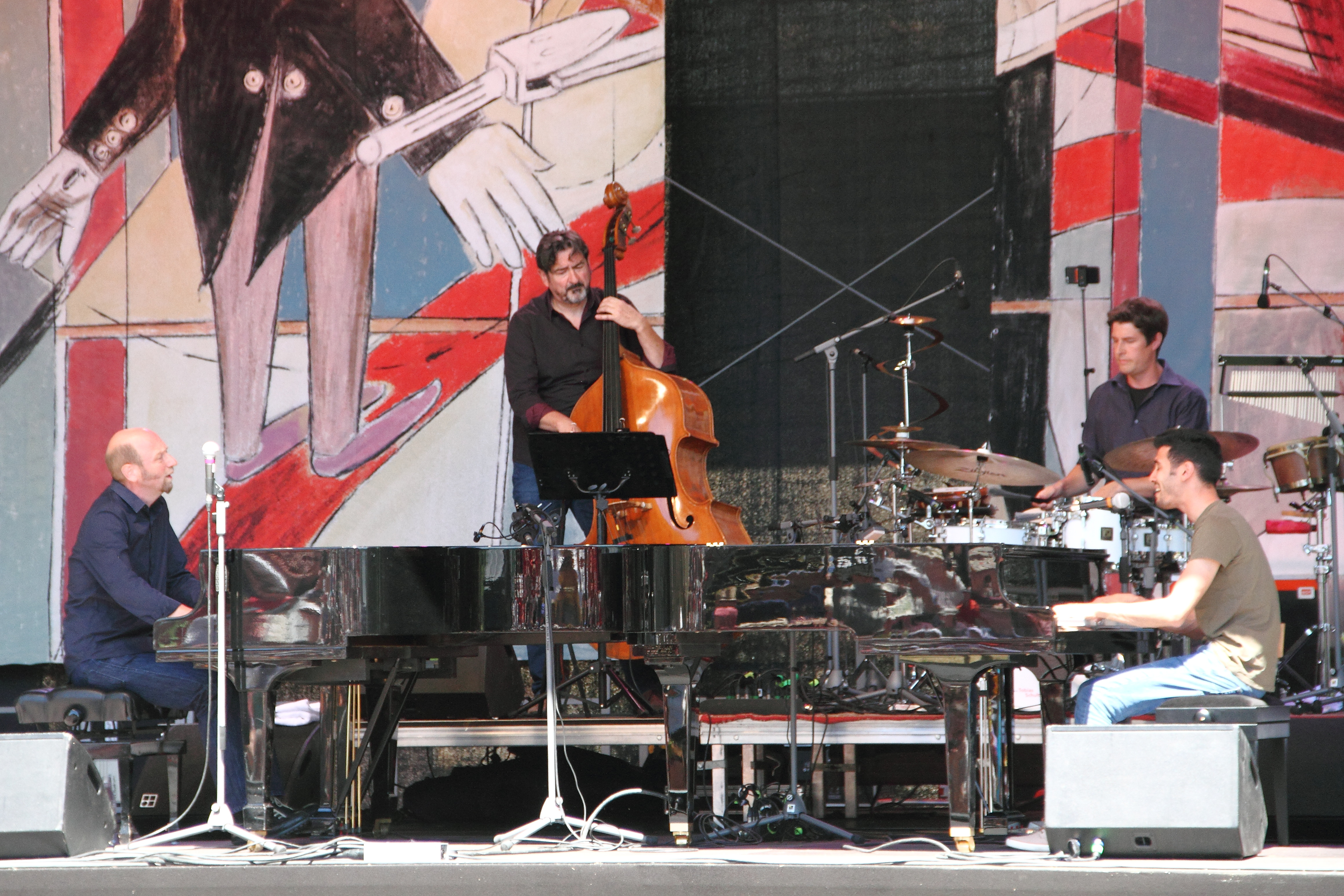 Ahmad-Knecht-Trio at Rudolstadt-Festival 2018.